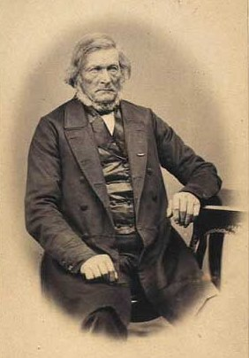 Ole Christian Christensen Kirk (1788-1876), Danish farmer and politician